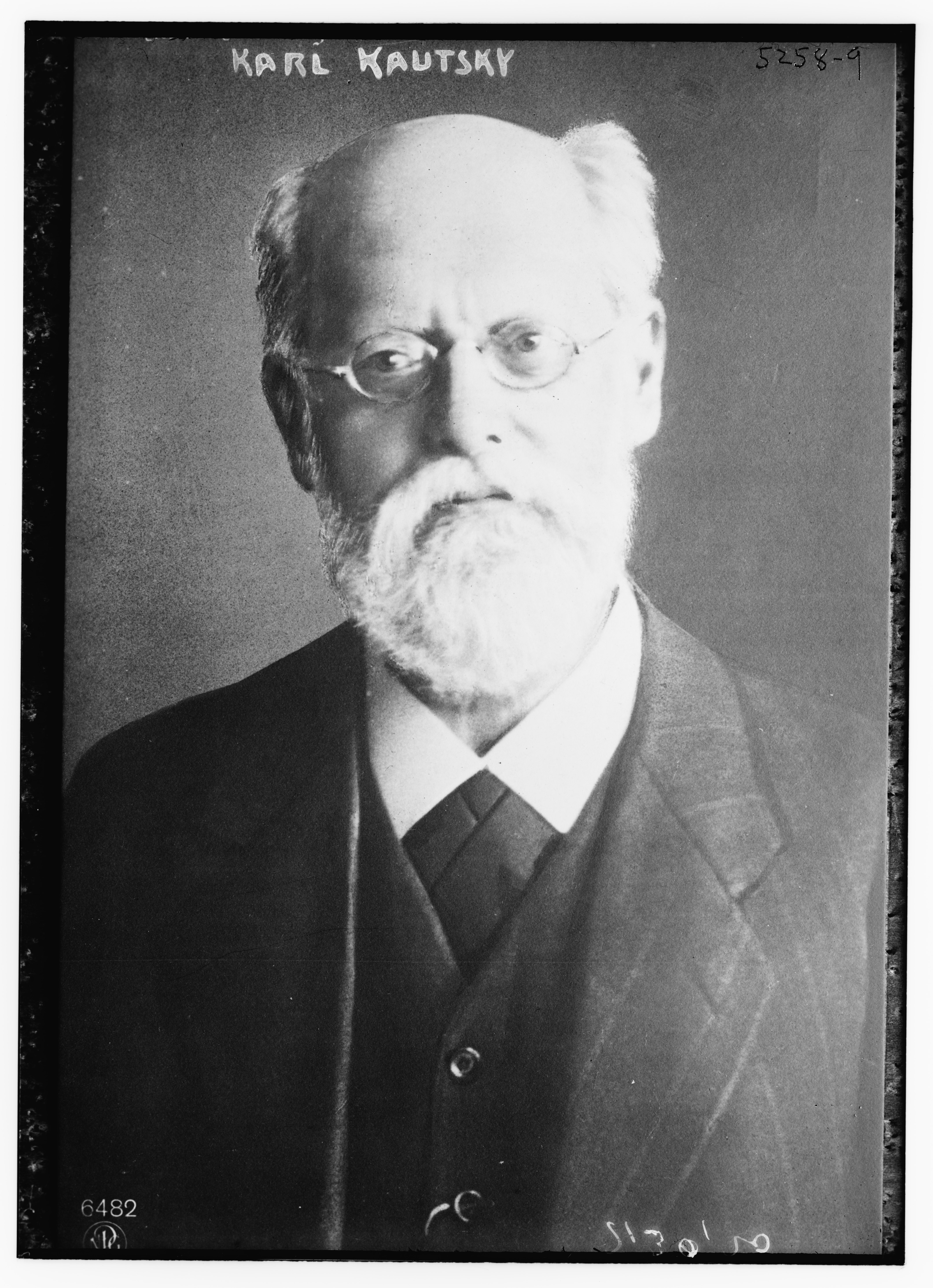 Title: Karl Kautsky Abstract/medium: 1 negative : glass ; 5 x 7 in. or smaller.